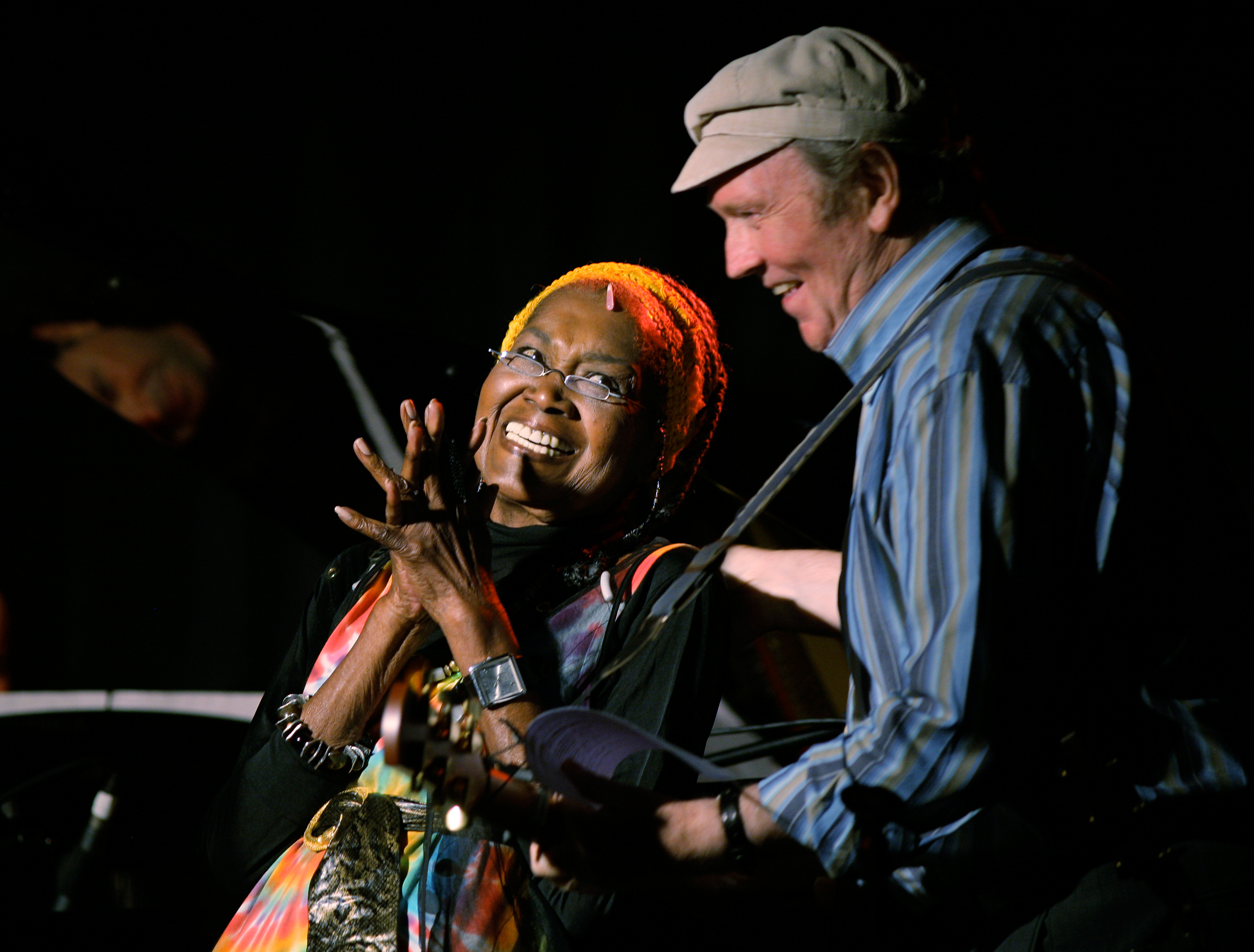 Odetta and Liam Clancy playing together for Clonmel Junction Festival, July 7.06